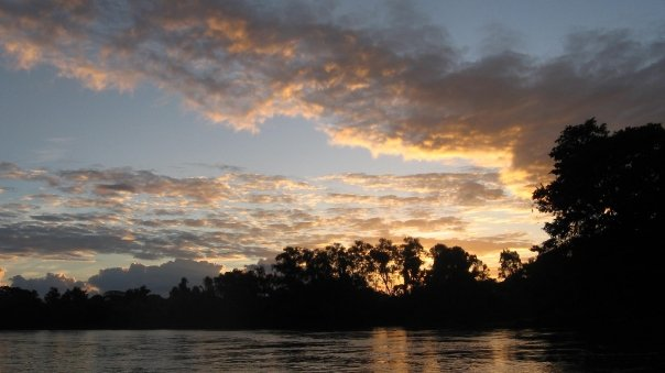 selva lacandona